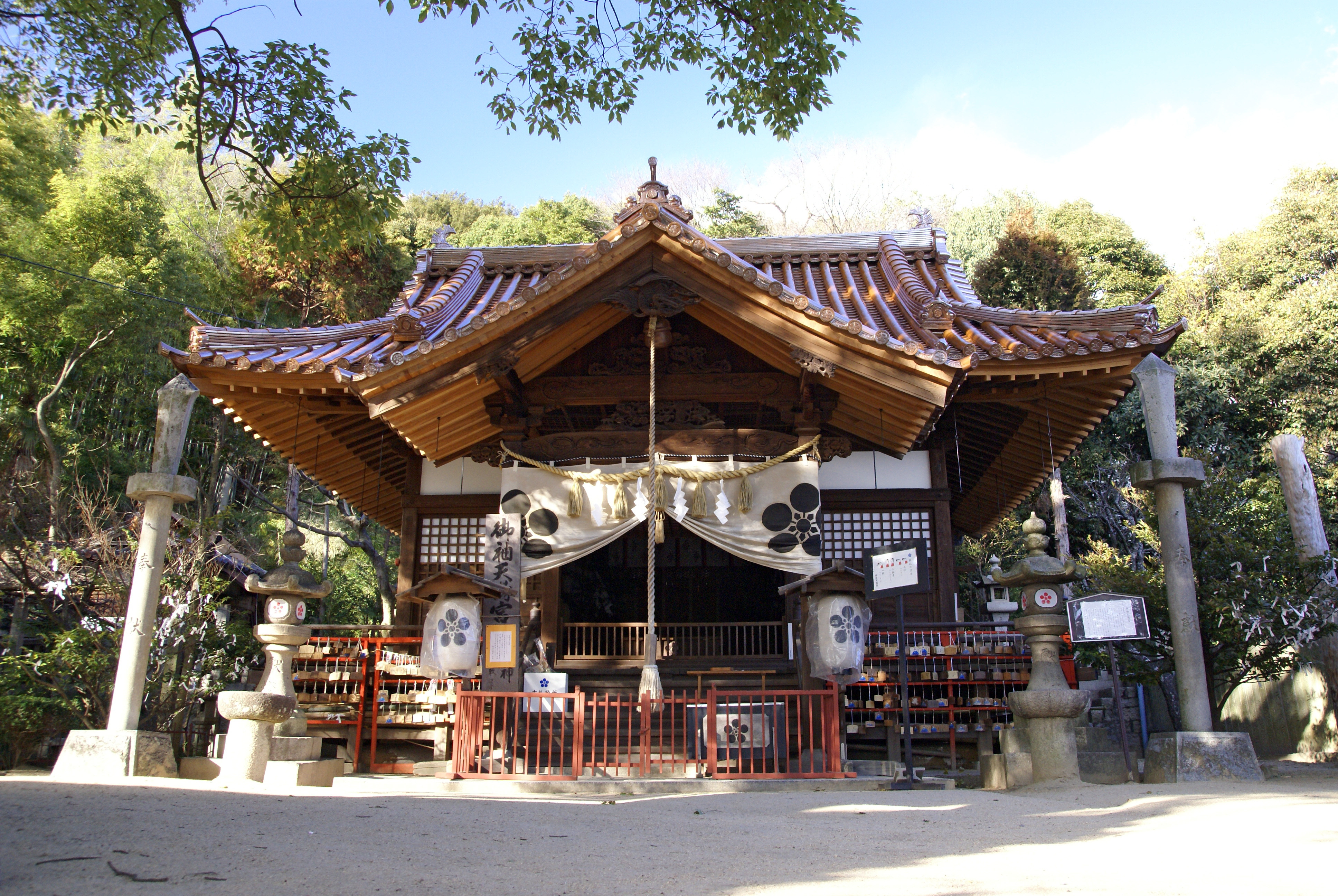 Misode-tenmangu in Onomichi, Hiroshima prefecture, Japan